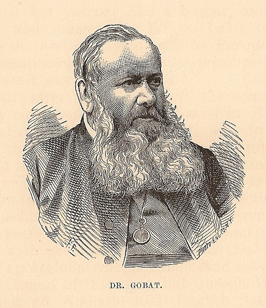 Dr. Samuel Gobat who became the second Anglican Bishop in Jerusalem.